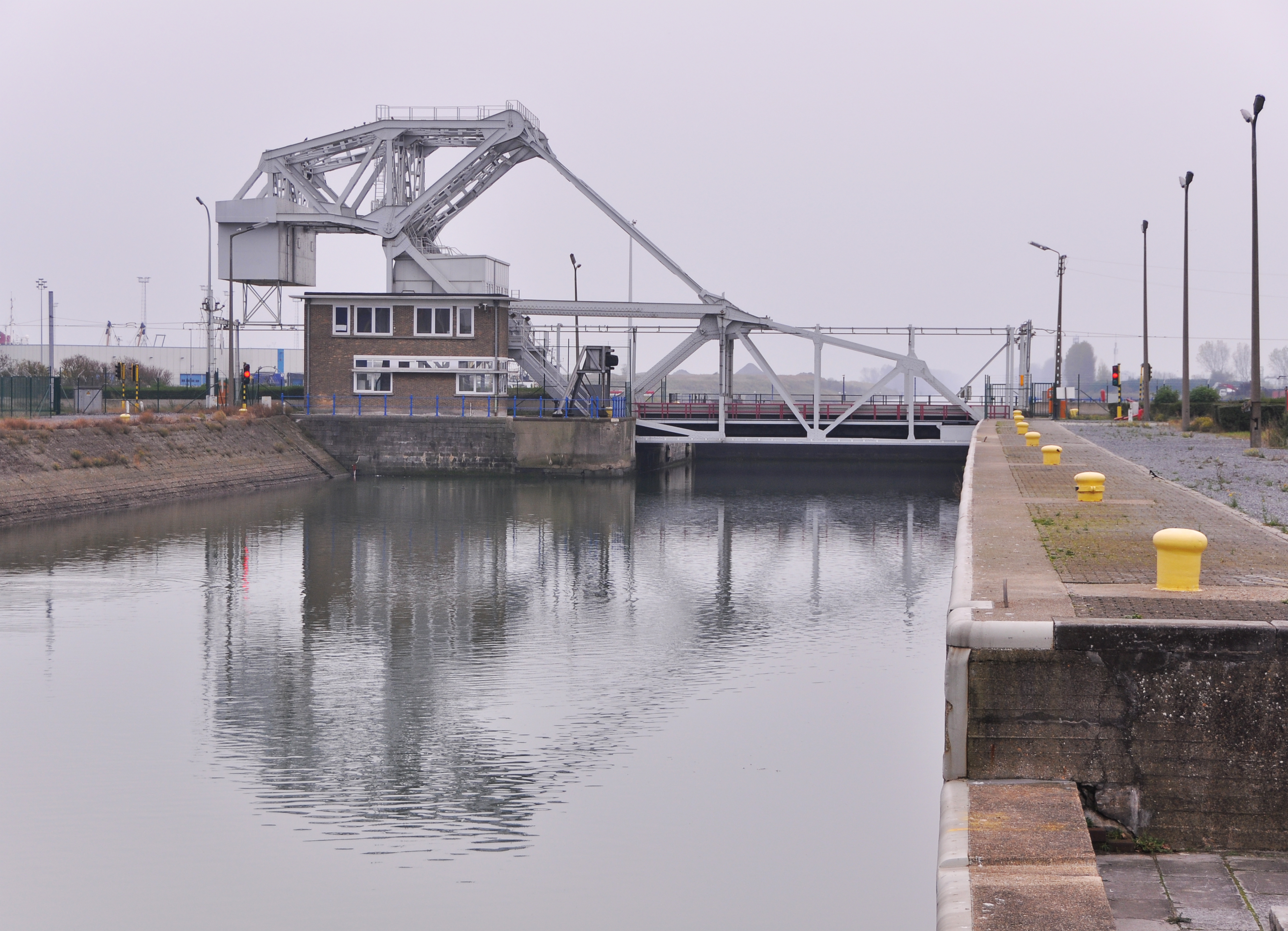 Zeebrugge (Bruges, Belgium): the Visart lock